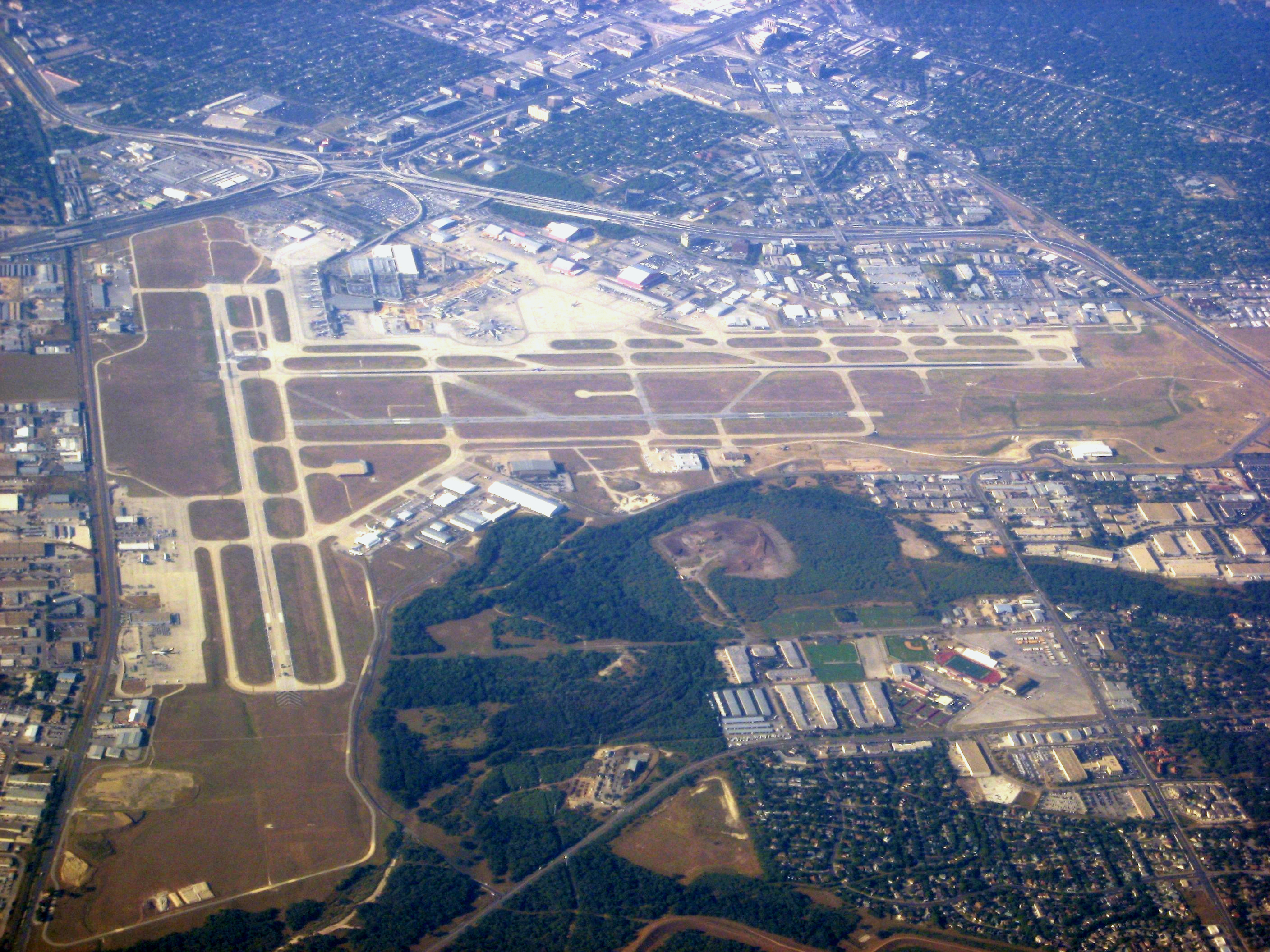 Picture of San Antonio International Airport in San Antonio, Texas, USA.